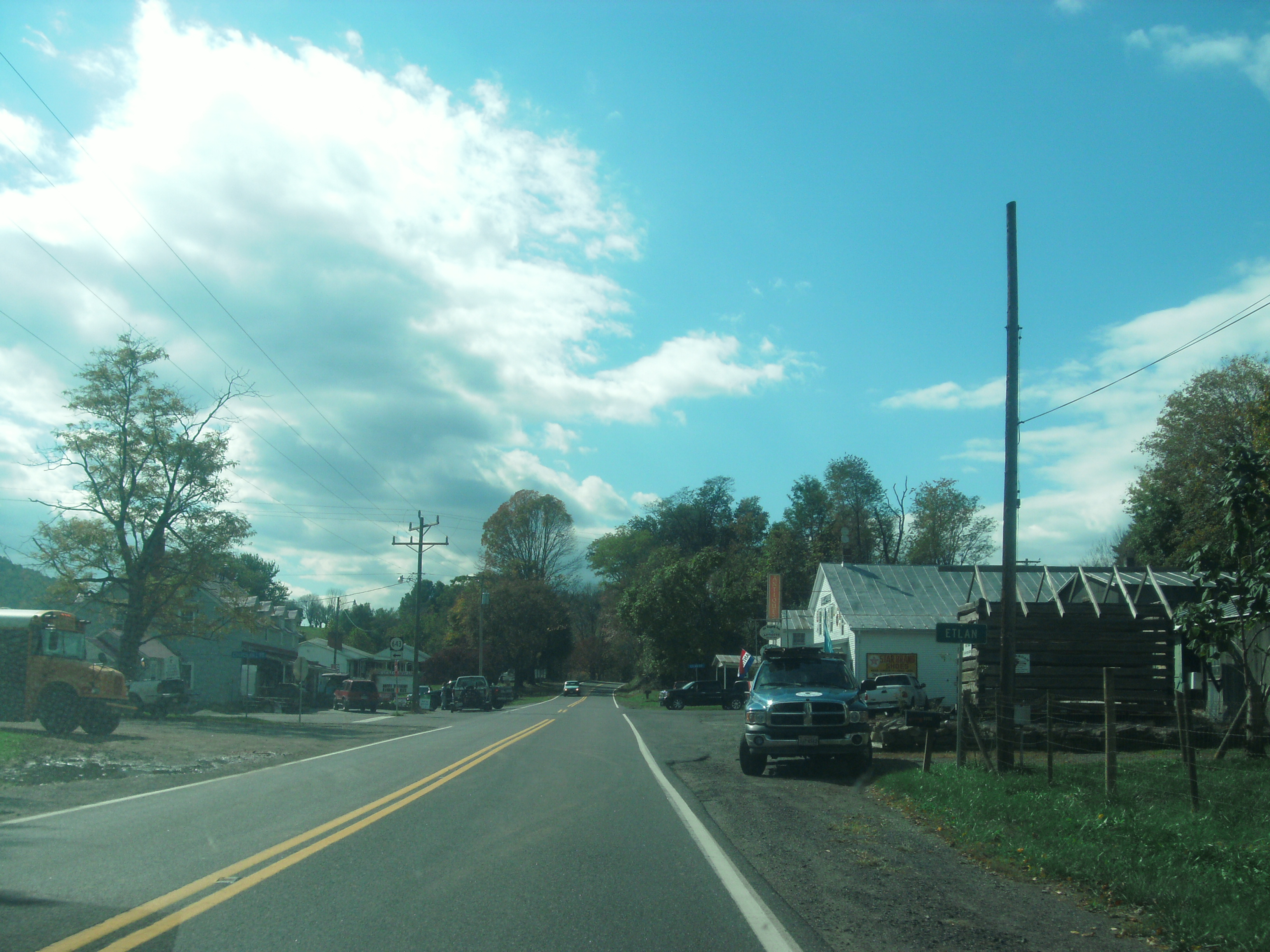 Etlan, Virginia